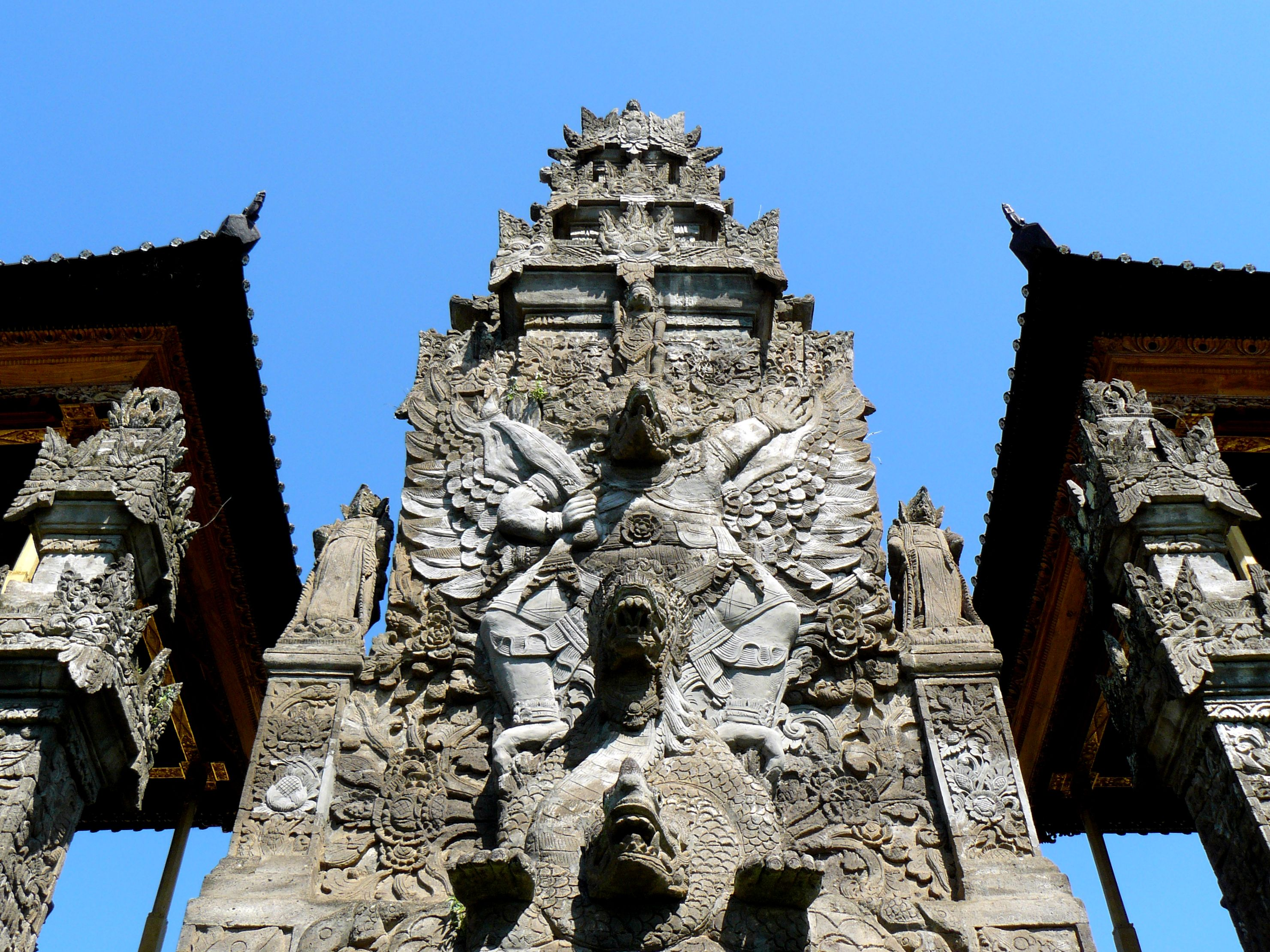 Pura Meduwe Karang, Kubutambahan, Bali, Pura Meduwe Karang, nr Singaraja, Bali Location: Bali